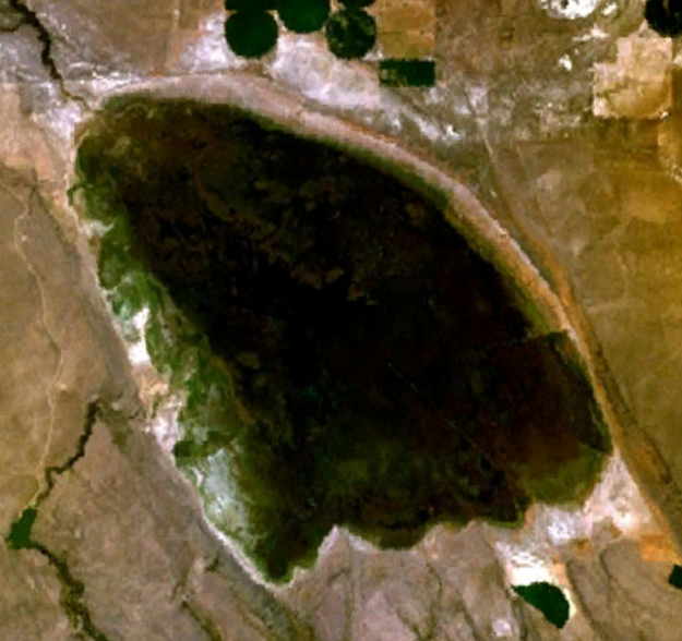 Silver Lake in Oregon, USA NASA NLT Landsat 7 image. Final image made using NASA World Wind.